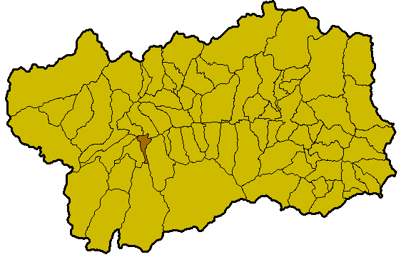 Location map of Villeneuve in the province of Valle d'Aosta.